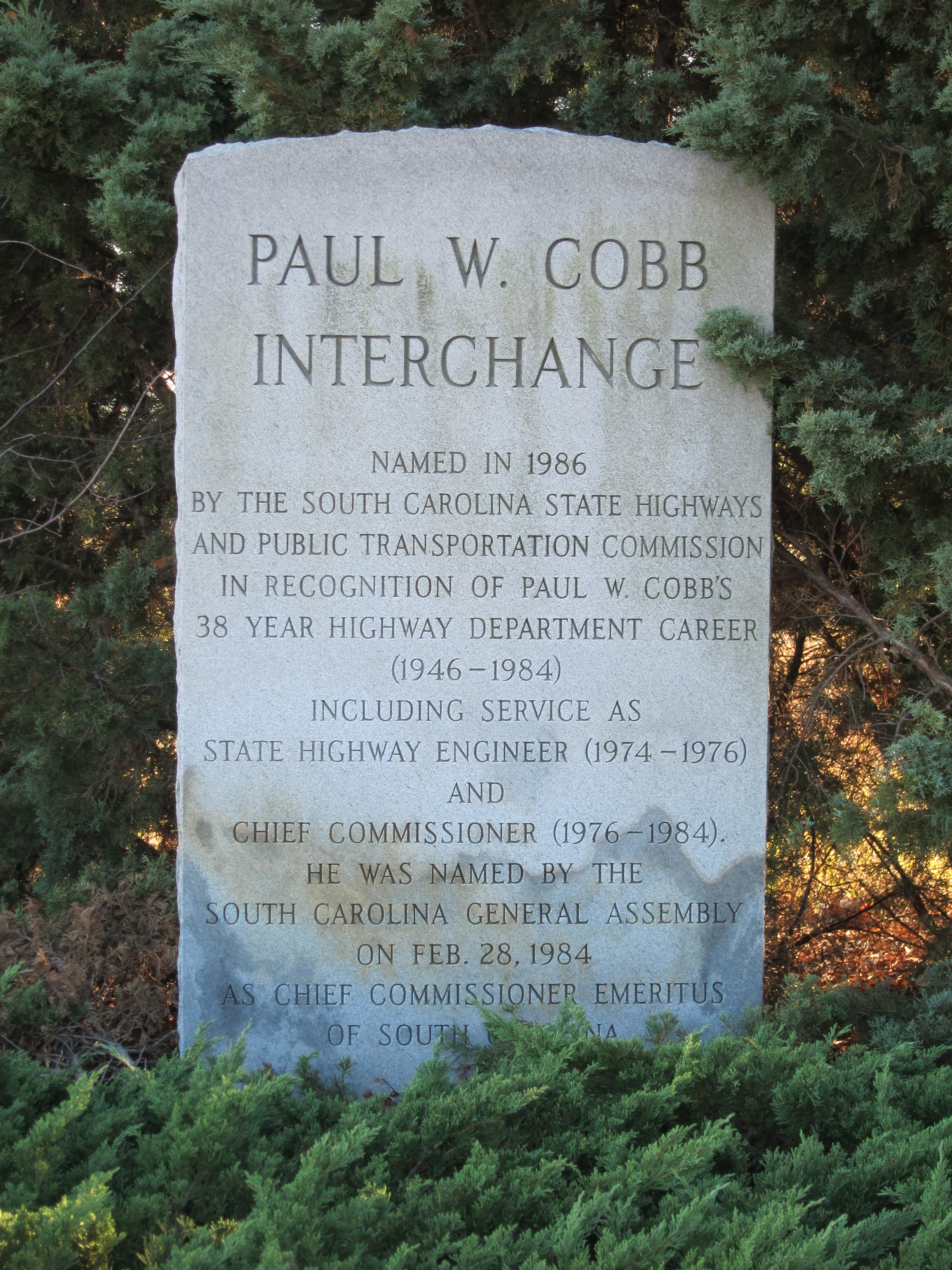 Paul W. Cobb Interchange, named in 1986 by the South Carolina State Highways and Public Transportation Commission. In recognition of Paul W. Cobb's 38 year highway department career (1946-1984) Including service as State Highway Engineer (1974-1976) and Chief Commissioner (1976-1984). He was named by the South Carolina General Assembly on February 28, 1984 as Chief Commissioner Emeritus of South Carolina.